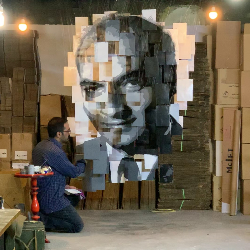 Saleh Sokhandan during painting on books to make an illusion installation